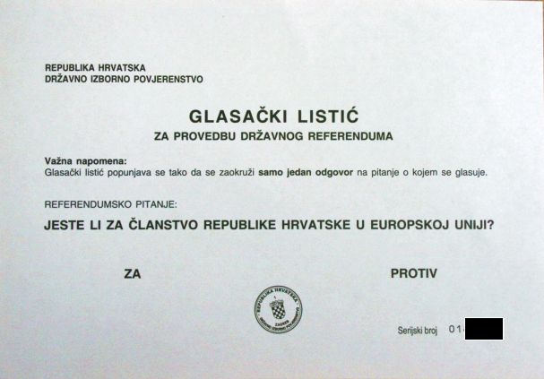 Referendum of accession of Croatia to EU, January 2012